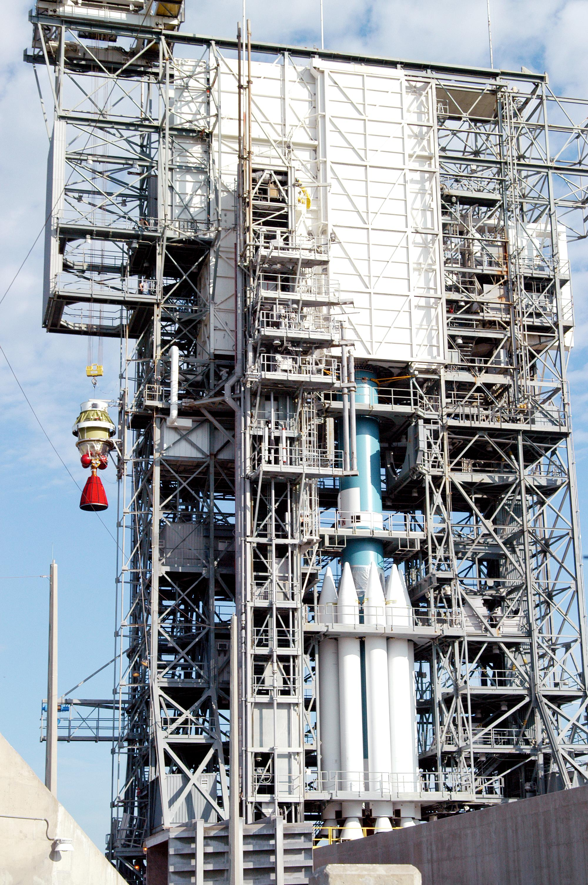 The Boeing Delta II Heavy second-stage engine, the Aerojet AJ10-118K, is lifted up the mobile service tower on Pad 17-B, Cape Canaveral Air Force Station. At right can be seen the first stage of the Delta II and the nine Solid Rocket Boosters surrounding it. The Delta II is the launch vehicle for the MESSENGER (Mercury Surface, Space Environment, Geochemistry and Ranging) spacecraft, scheduled to lift off Aug. 2. Bound for Mercury, the spacecraft is expected to reach orbit around the planet in March 2011. MESSENGER was built for NASA by the Johns Hopkins University Applied Physics Laboratory in Laurel, Md.